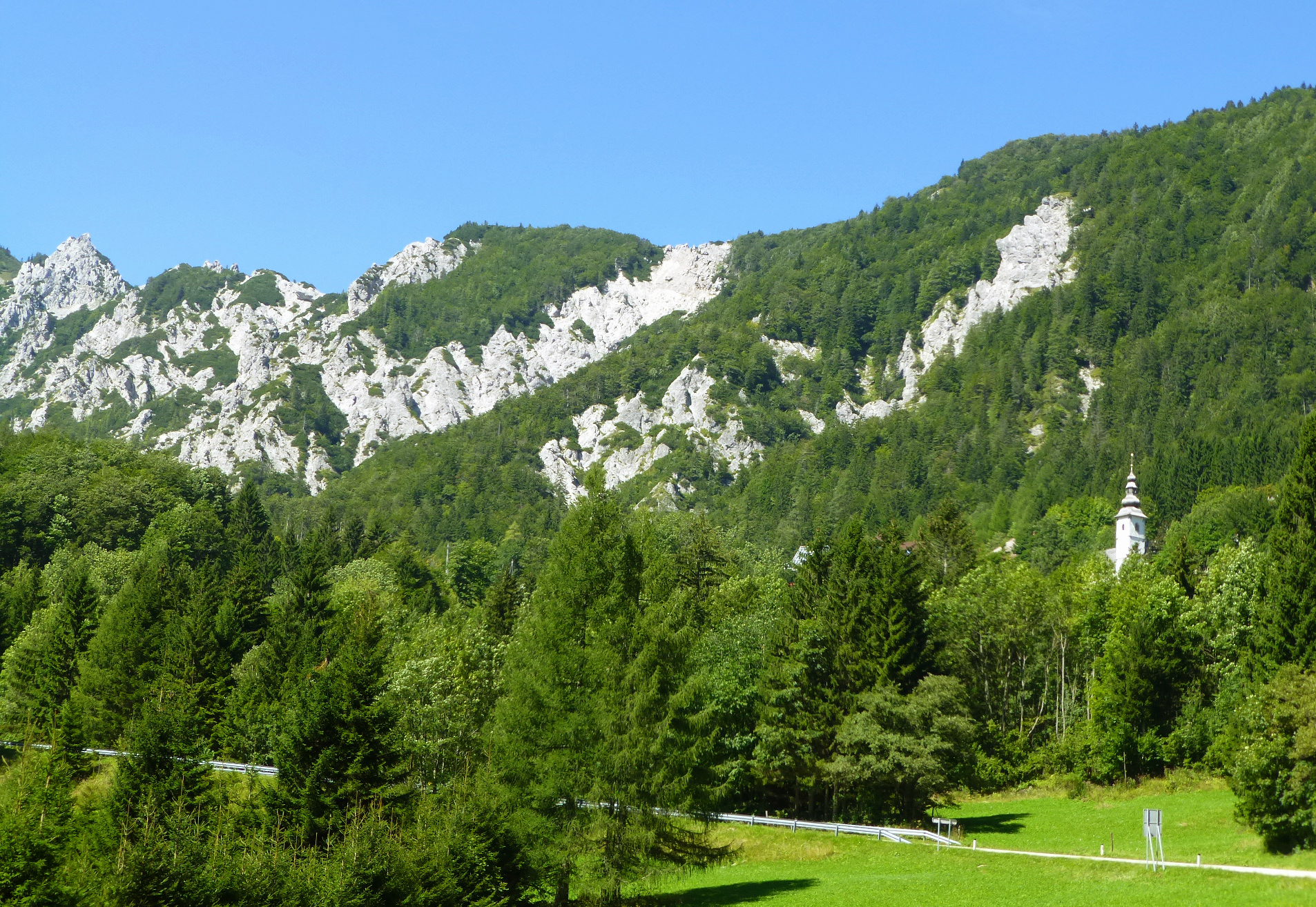 The Karawanks Alps range and the St Anna church, Loiblpass, now the Slovenian village Podljubelj (Sanct Anna in Oberkrain in 1900).